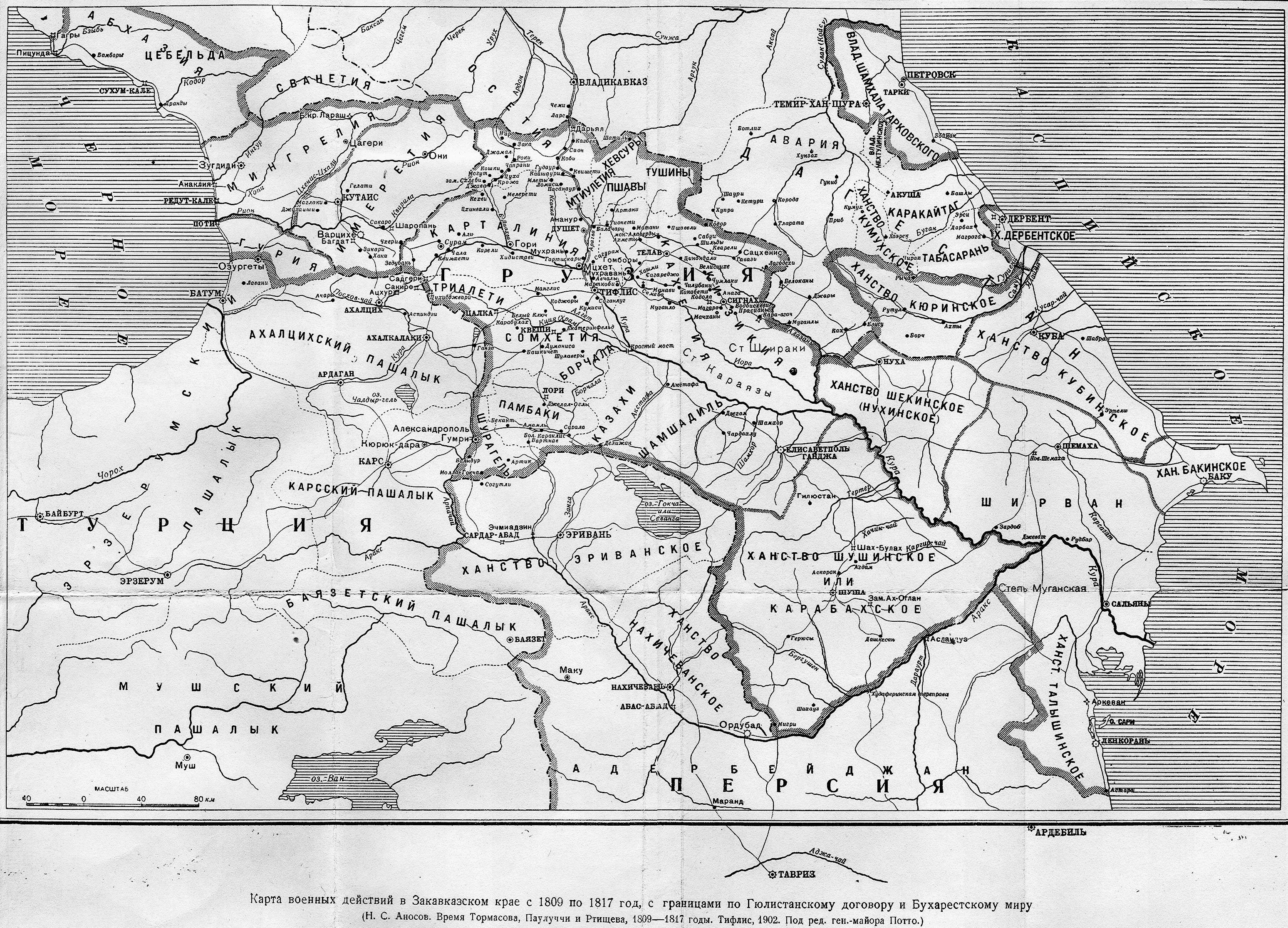 The map of the Russian wars with the Turks and Persians in 1809-1817 and the ensuing territorial rearrangements. A map is taken from N. Anosov's "Times of Tormasov, Paulucci and Rtishchev, 1809-1817" published in Tiflis (Tbilisi) in 1902